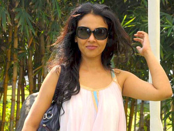 Suchitra Krishnamoorthi at Harsh Goenka's art camp / Bollywood Photos